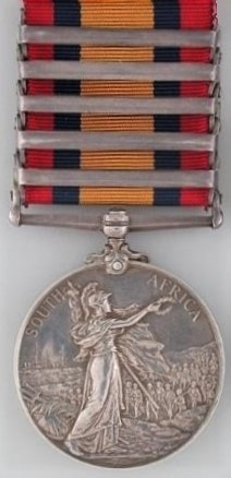 British campaign medal for 2nd Boer War, 1899-1902